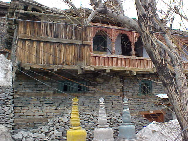 प्ररूपी घर